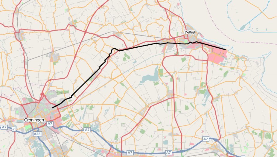 Rough location of the Stadsweg in Groningen